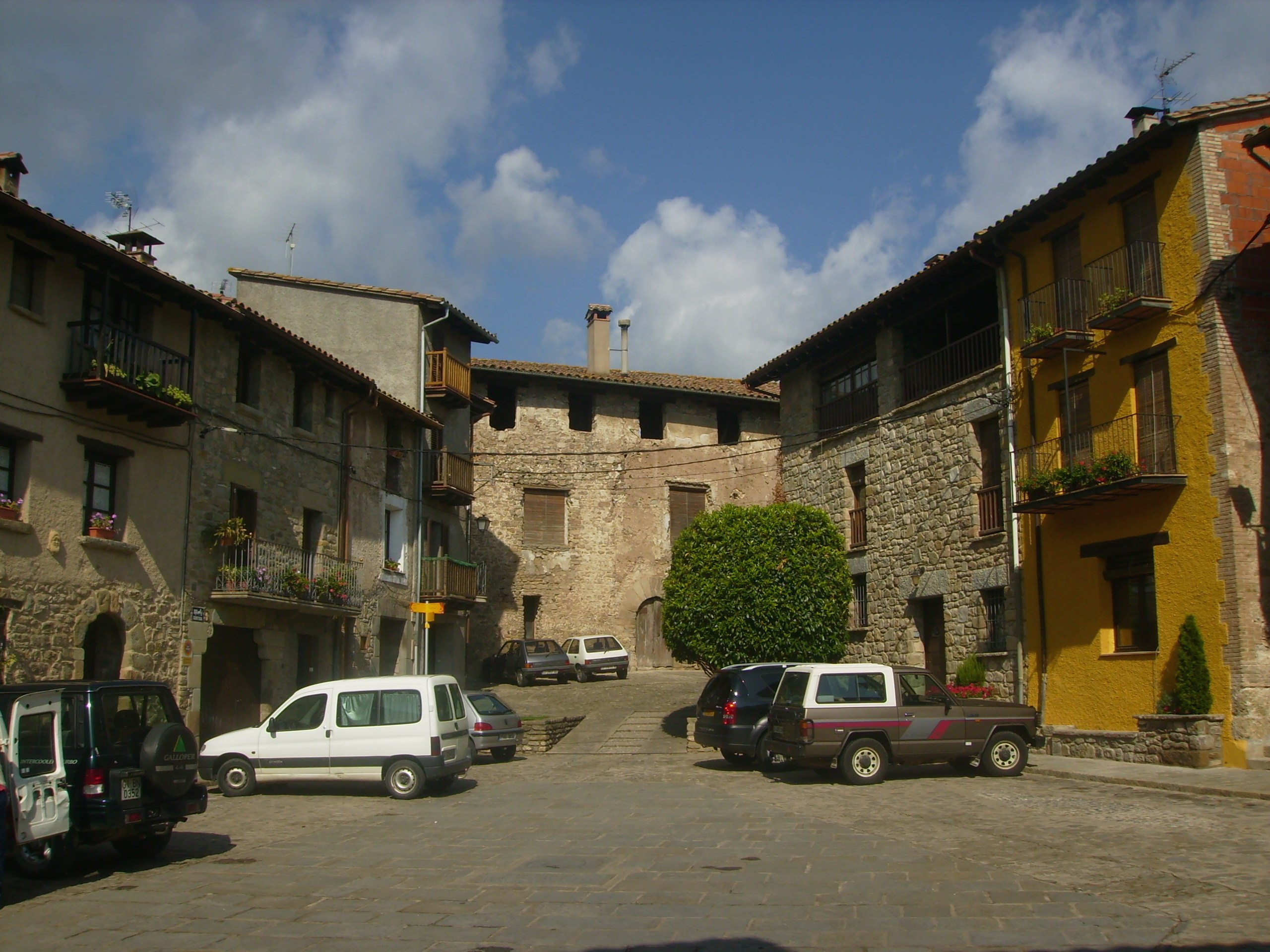 Gambeto's square - Riudaura (Catalonia)